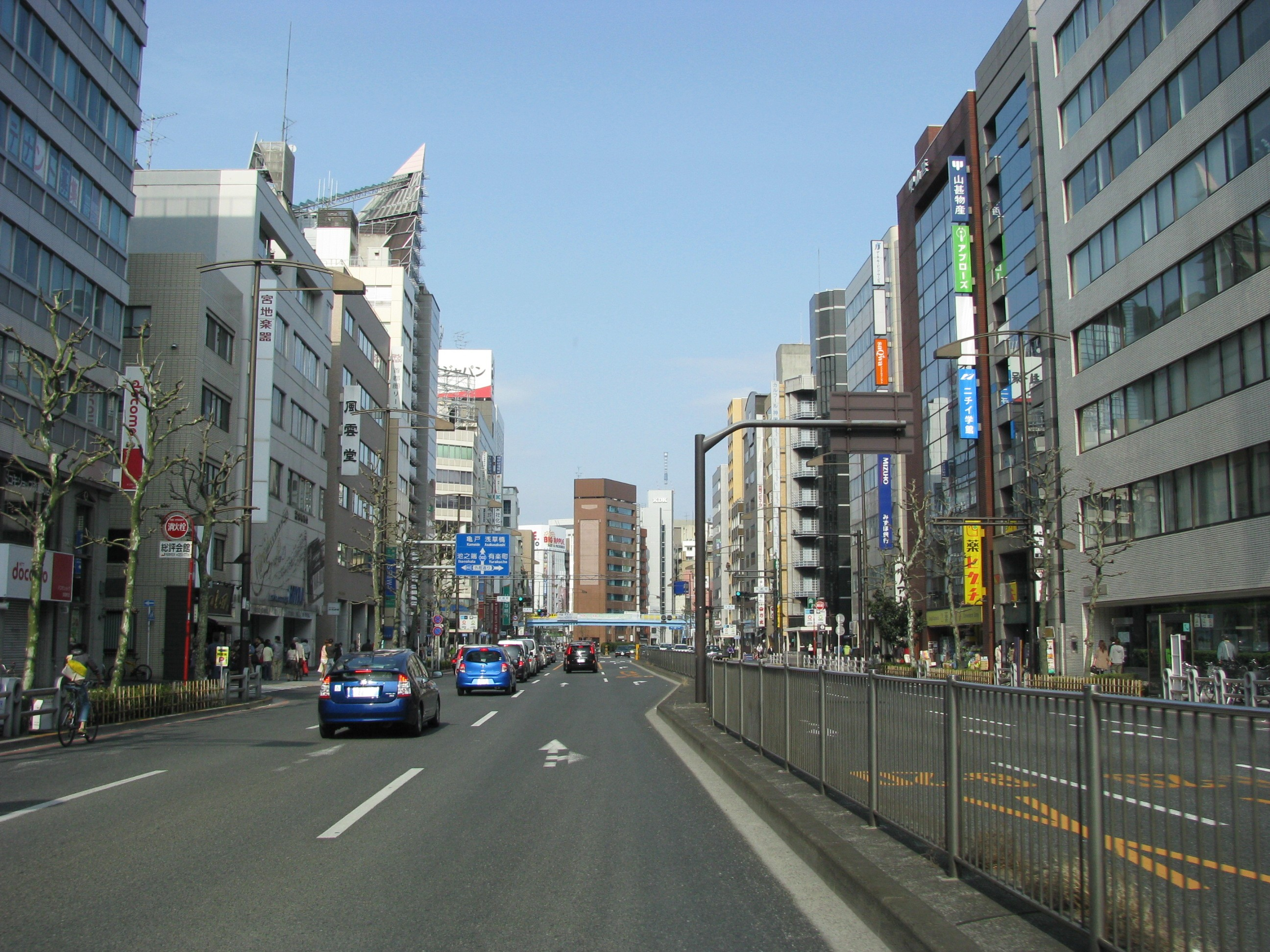 The Tokyo Prefectural Route 302. This located is Kanda-Ogawamachi in Chiyoda, Tokyo, Japan.